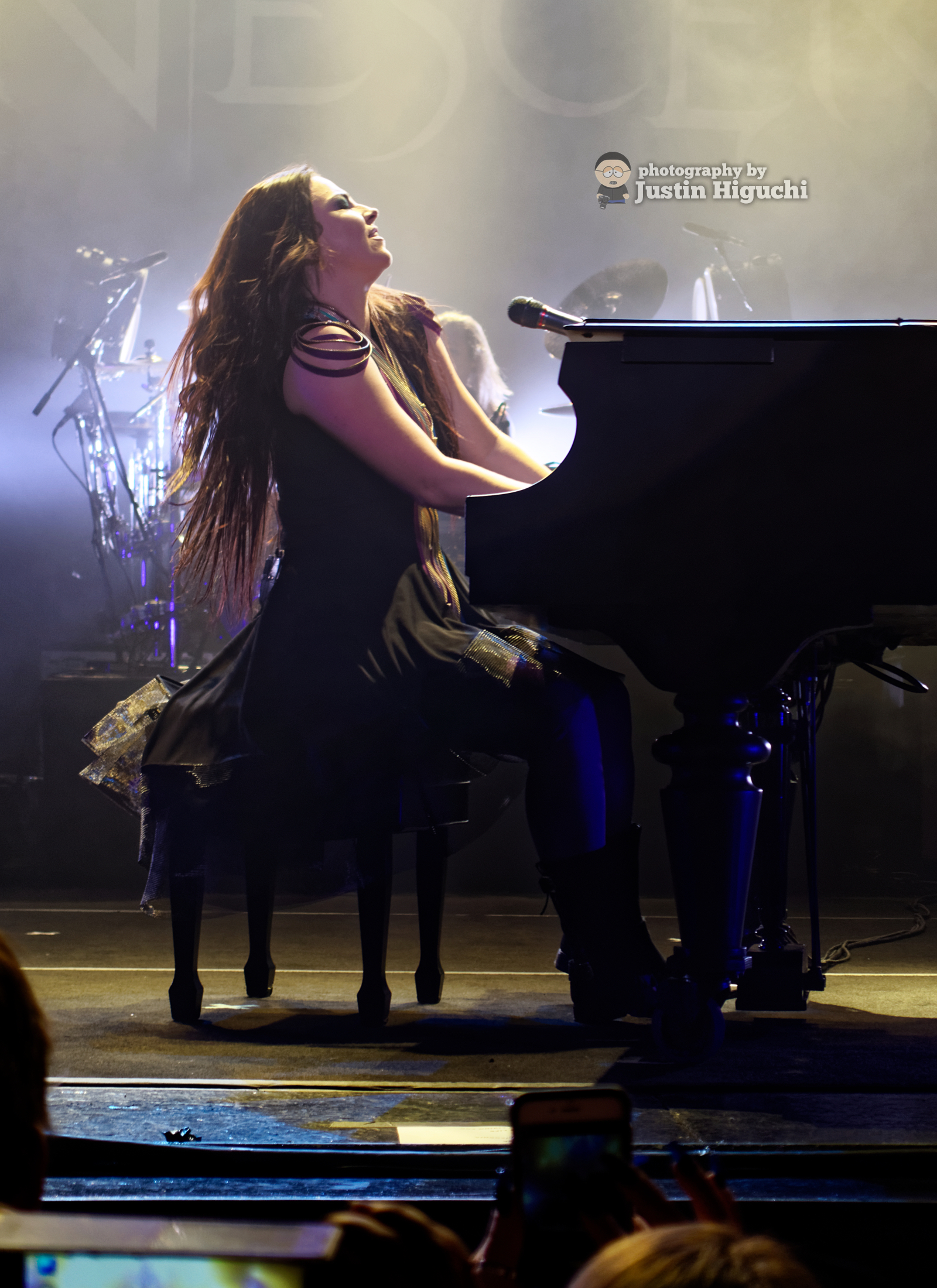 Evanescence performing live at The Wiltern theatre in Los Angeles, California on Tuesday November 17th, 2015.